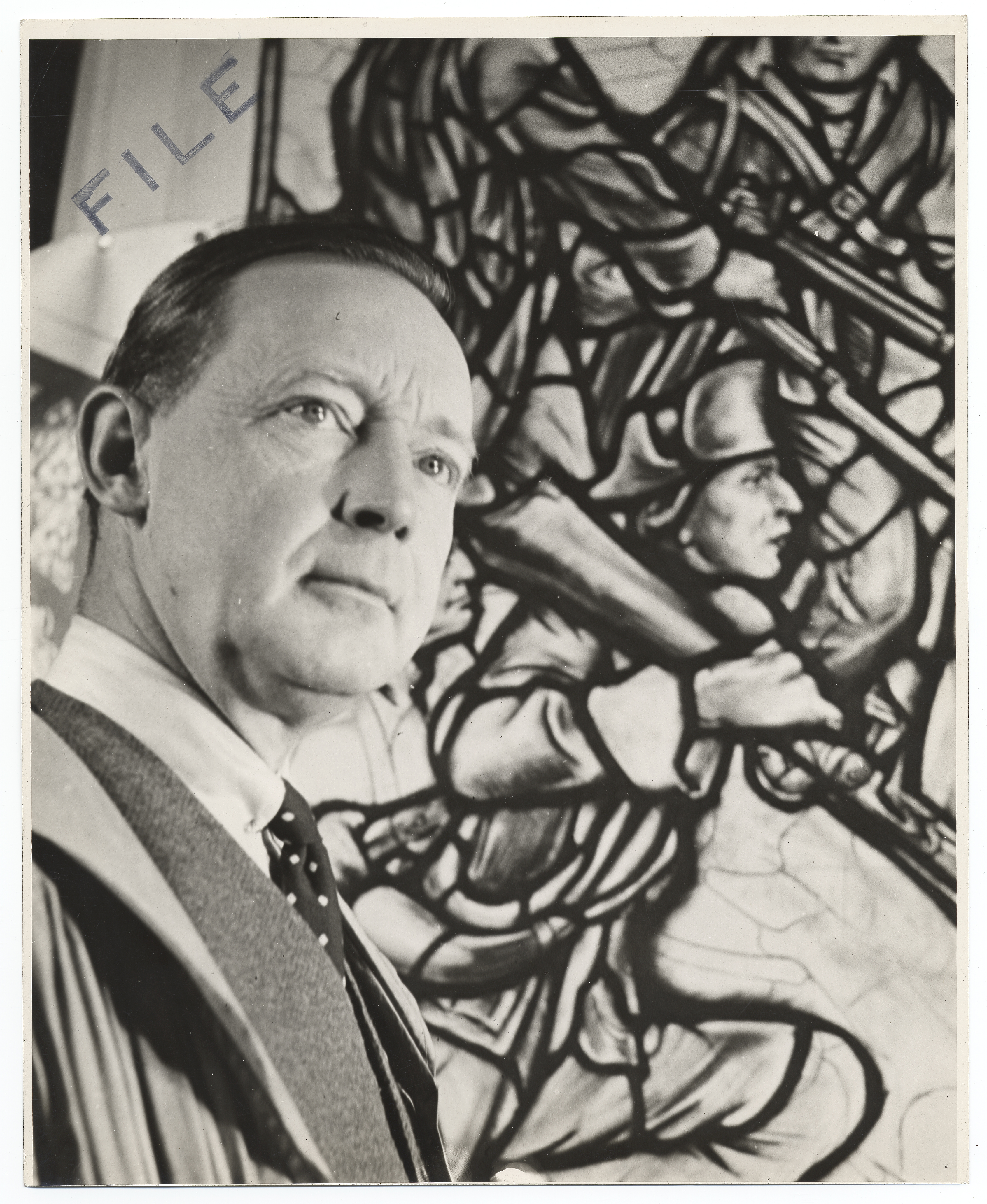 Ennis standing next to work for WPA Federal Art Program. Identification on verso (handwritten and stamped): W.P.A. Federal Art Project 6 East 39th St., New York, New York Negative No: J.147I.